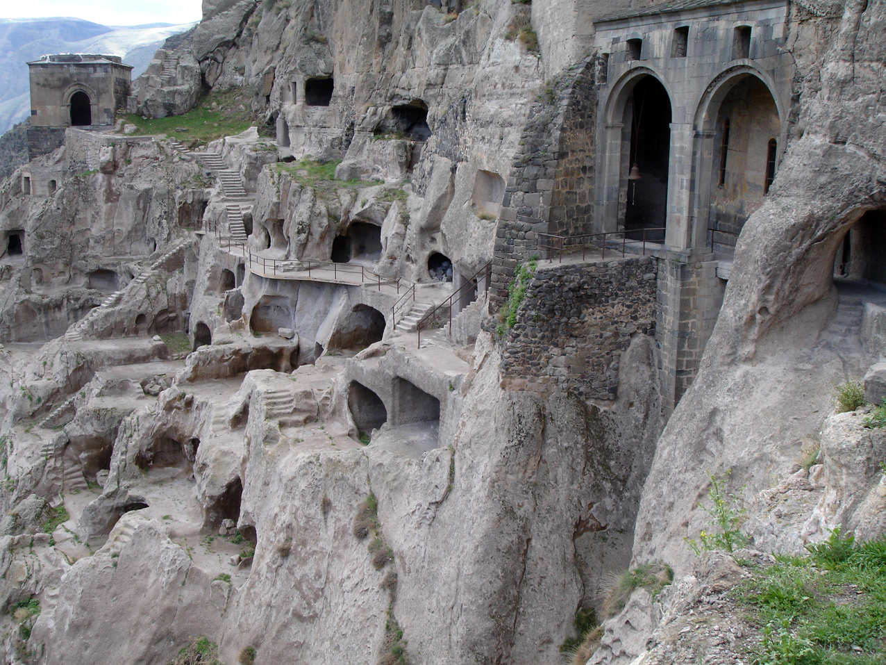 Five monks still live in this mountain. Every morning at seven they ring the bell in the high arch. See wikipedia for more.